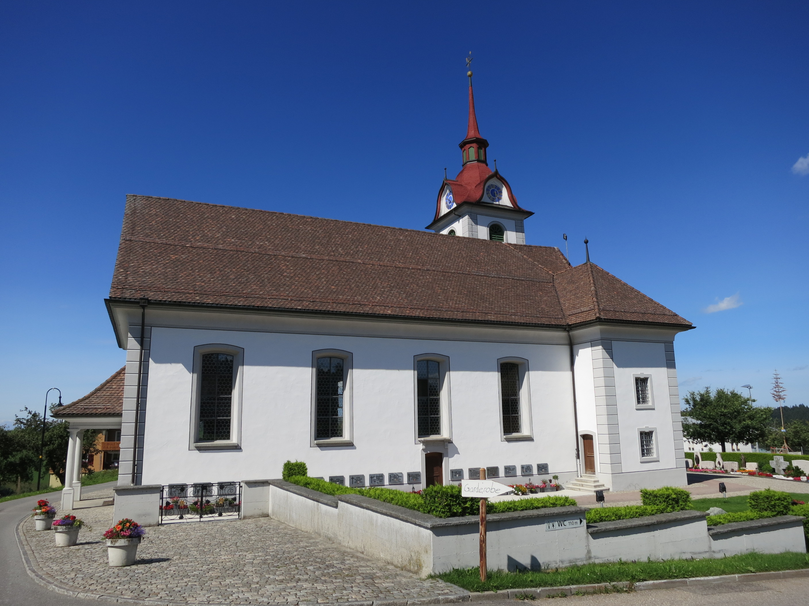 Kirche Menzberg, Menznau LU, Schweiz